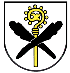 Coat of arms of Knittlingen